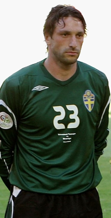 Rami Shaaban (Swedish national football team) before the FIFA World Cup match against Trinidad and Tobago on June 10, 2006